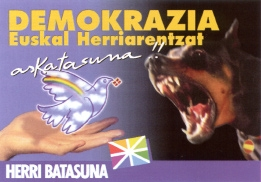 Flyer promoting ETA's Alternatiba Demokratikoa.